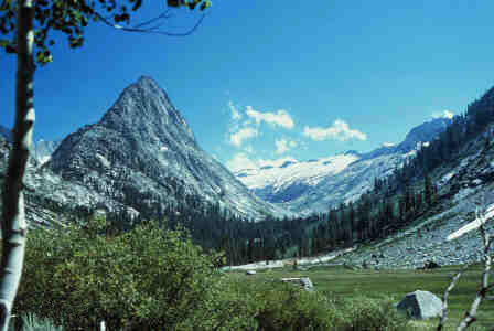 Cloud Canyon, in Kings Canyon National Park, California, United States